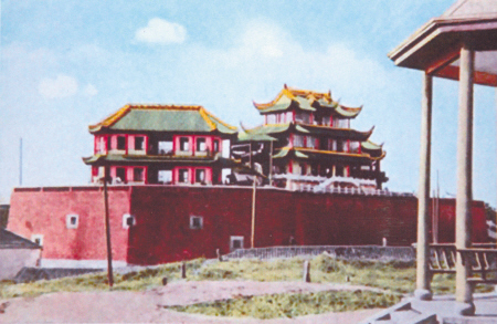 The Tianxin Pavilion in 1928. Tianxin Pavilion is a Chinese pavilion in downtown Changsha, Hunan, China. It is adjacent to Changsha Bamboo Slips Museum and Baisha Well.